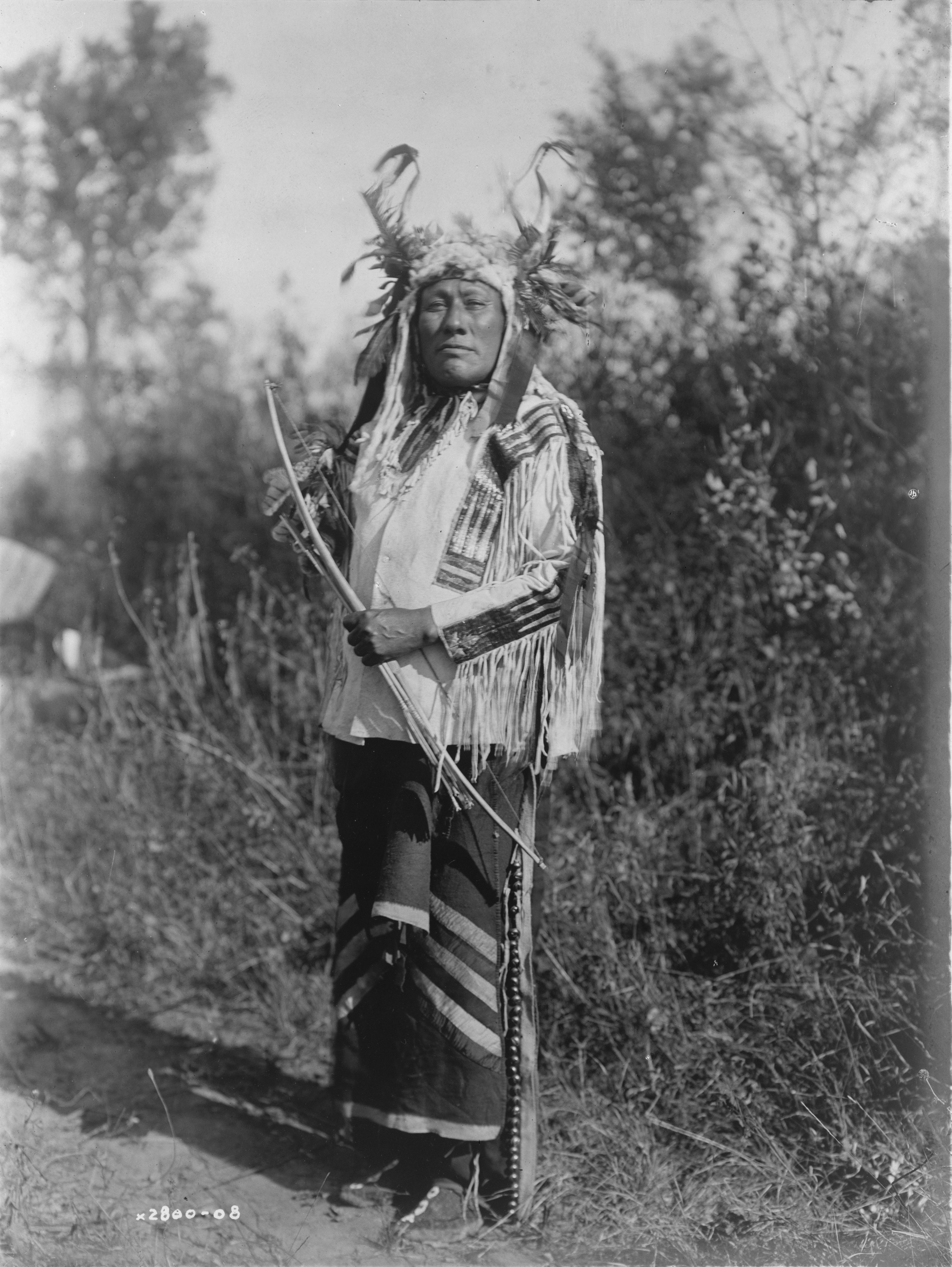 Long Time Dog, full-length portrait, standing, facing front, wearing headress, buckskin shirt, and leggings with brass bells.